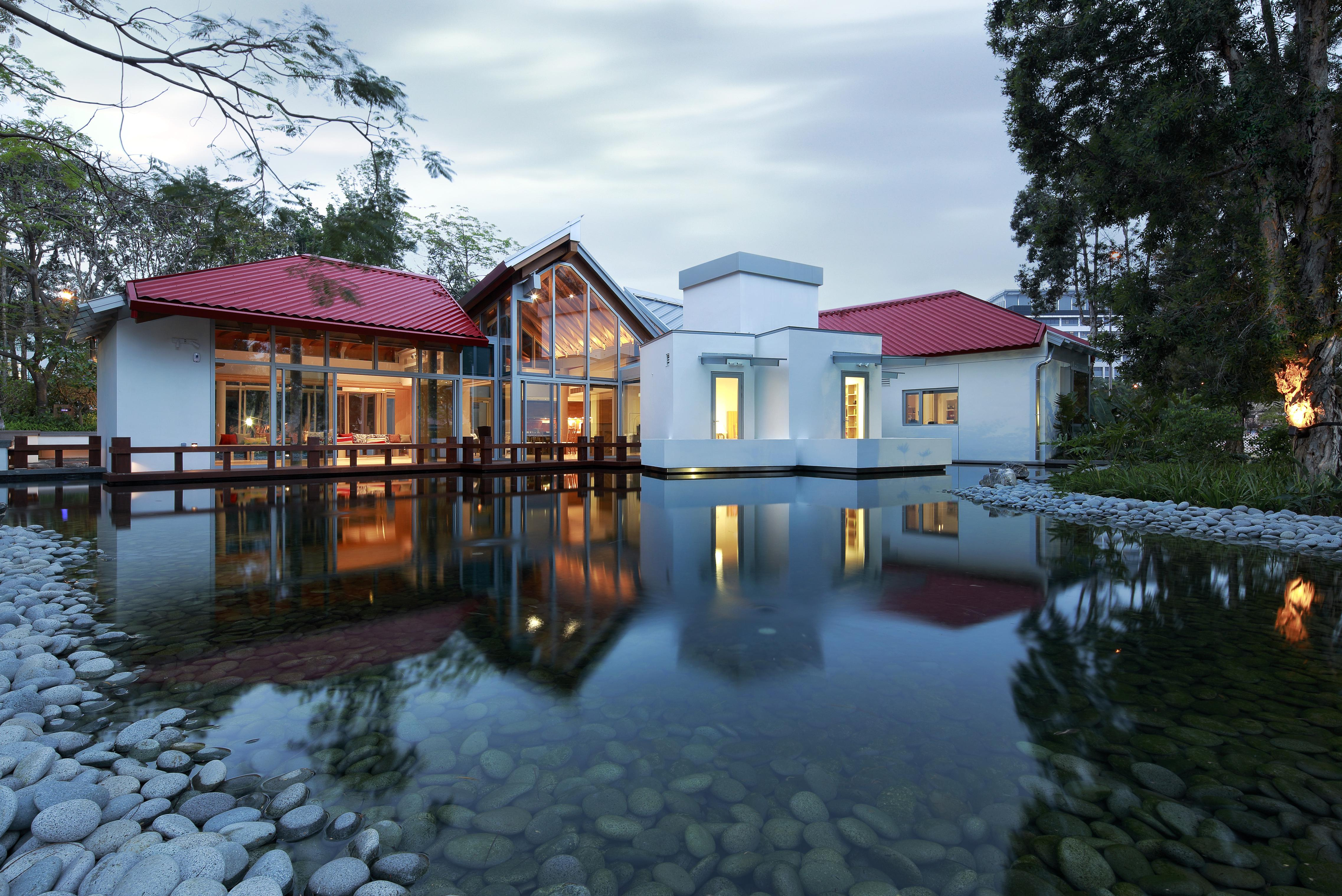 Maggie's Cancer Caring Centre, Tuen Mun, Hong Kong中文（香港）: 香港銘琪癌症關顧中心．屯門